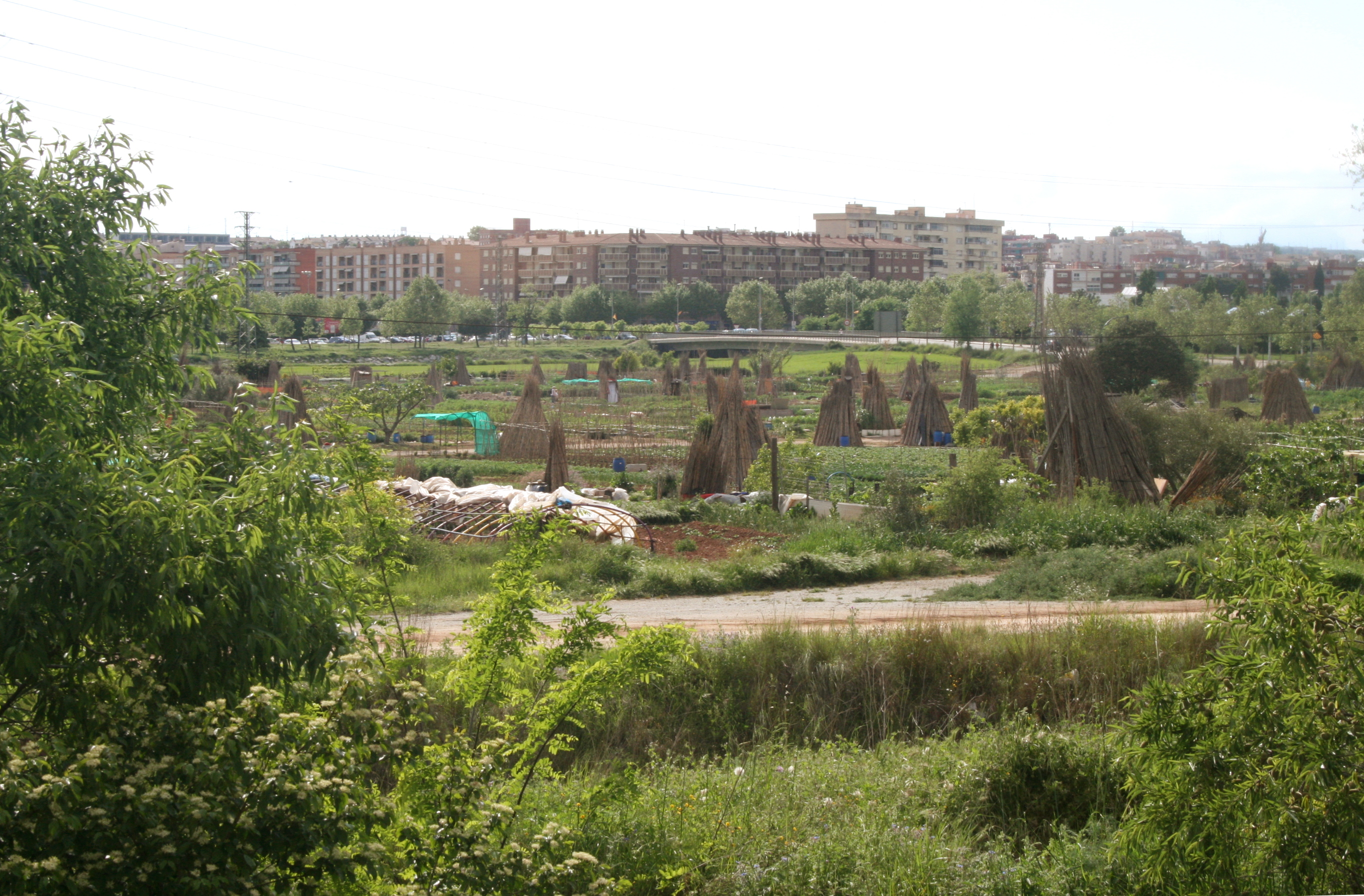 Santa Perpètua de Mogoda